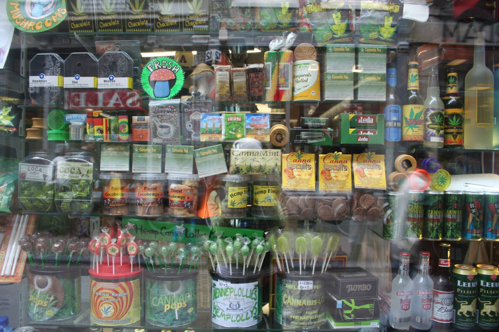 Amsterdam store window displaying various medical cannabis, hemp food and other types of products